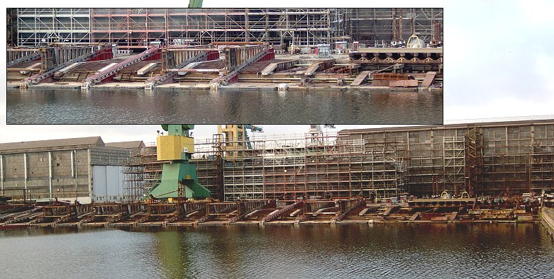 Slipway in Northern Shipyard in Gdansk, Poland.